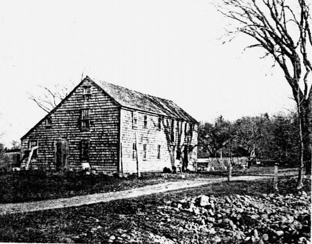 Homestead of Edmund Rice (1594-1663) in Wayland, Massachusetts.